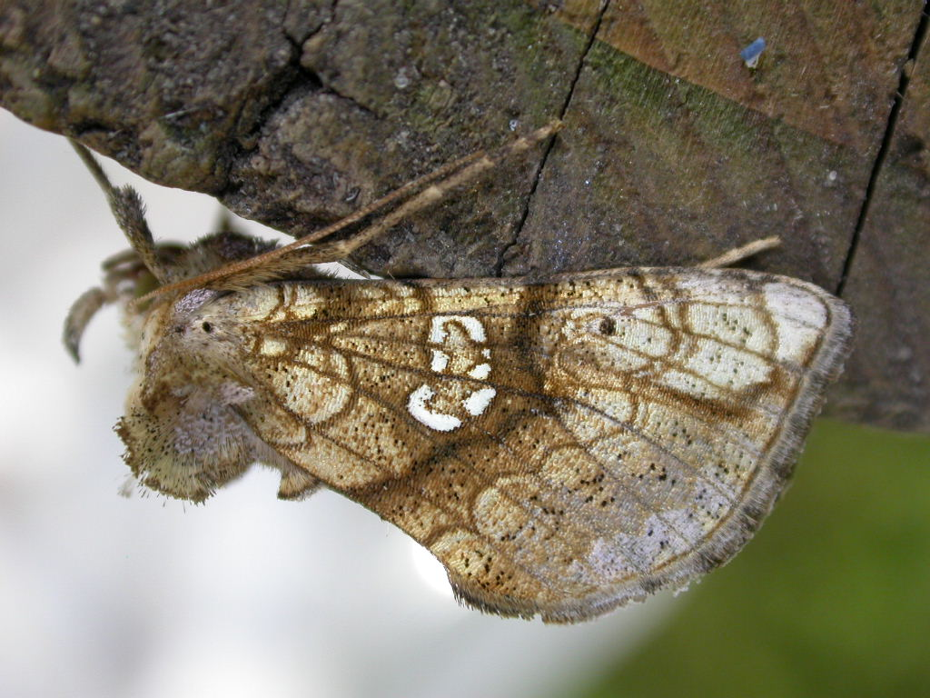 Polychrysia moneta, to MV light, Hellerup, Denmark, 1 July 2005